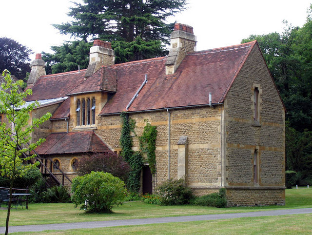 Ascot Priory, Berks, near to Winkfield Row, Bracknell Forest, Great Britain.